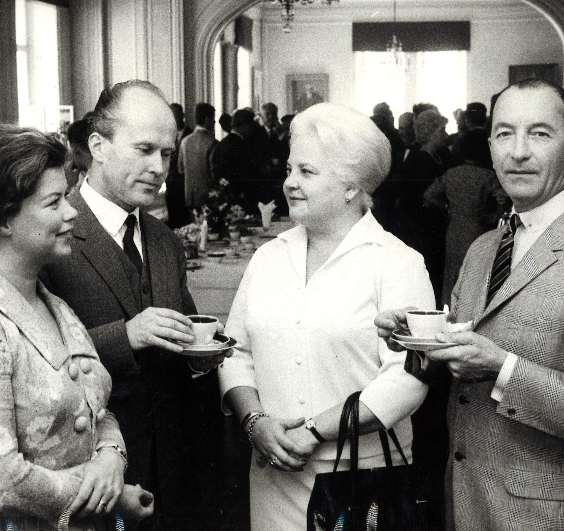 Photograph of Finnish musicians at the season opening of the Finnish National Opera. From left singers Eini Liukko-Vaara, Matti Lehtinen, Anita Välkki and pianist Cyril Szalkiewicz